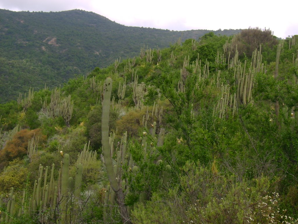 Echinopsis chiloensis